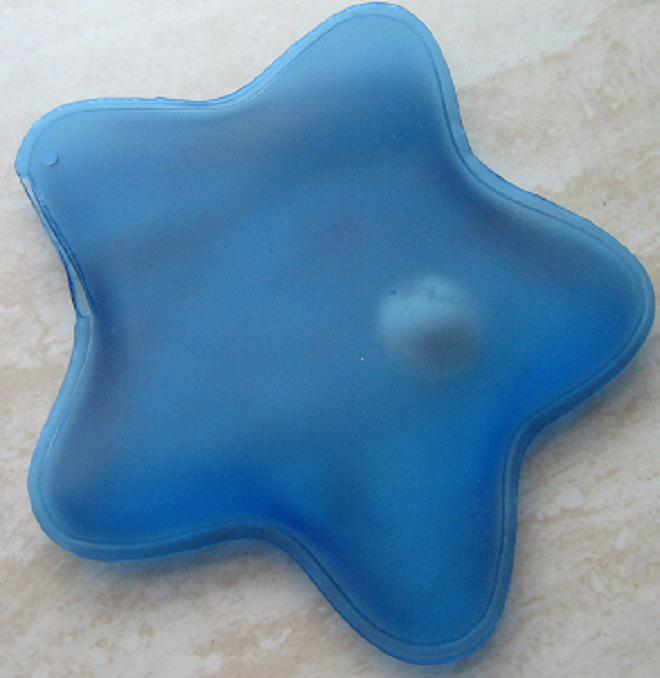 A PCM